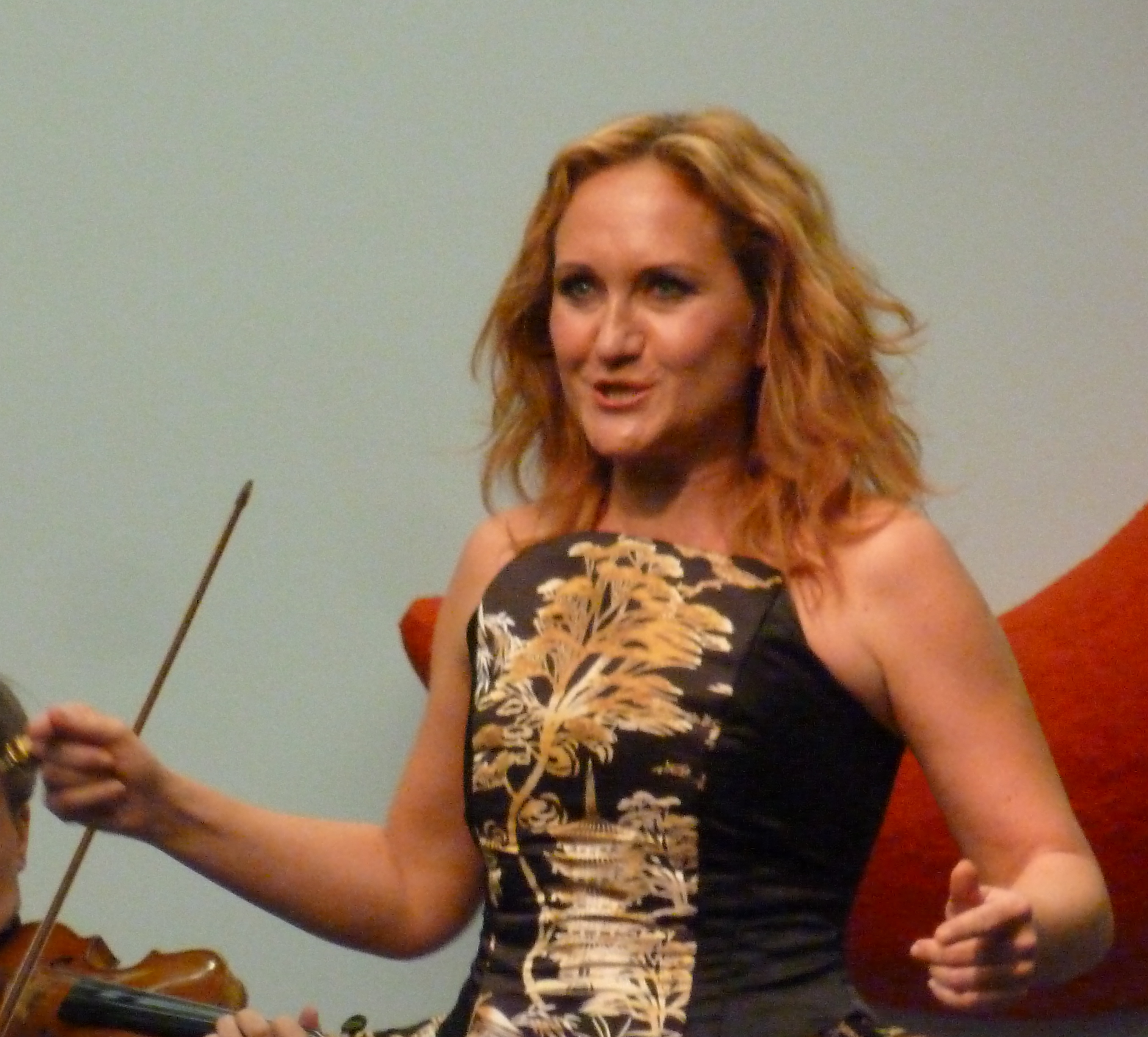 Simone Kermes in Concert, 2013 in Remagen/Rolandseck